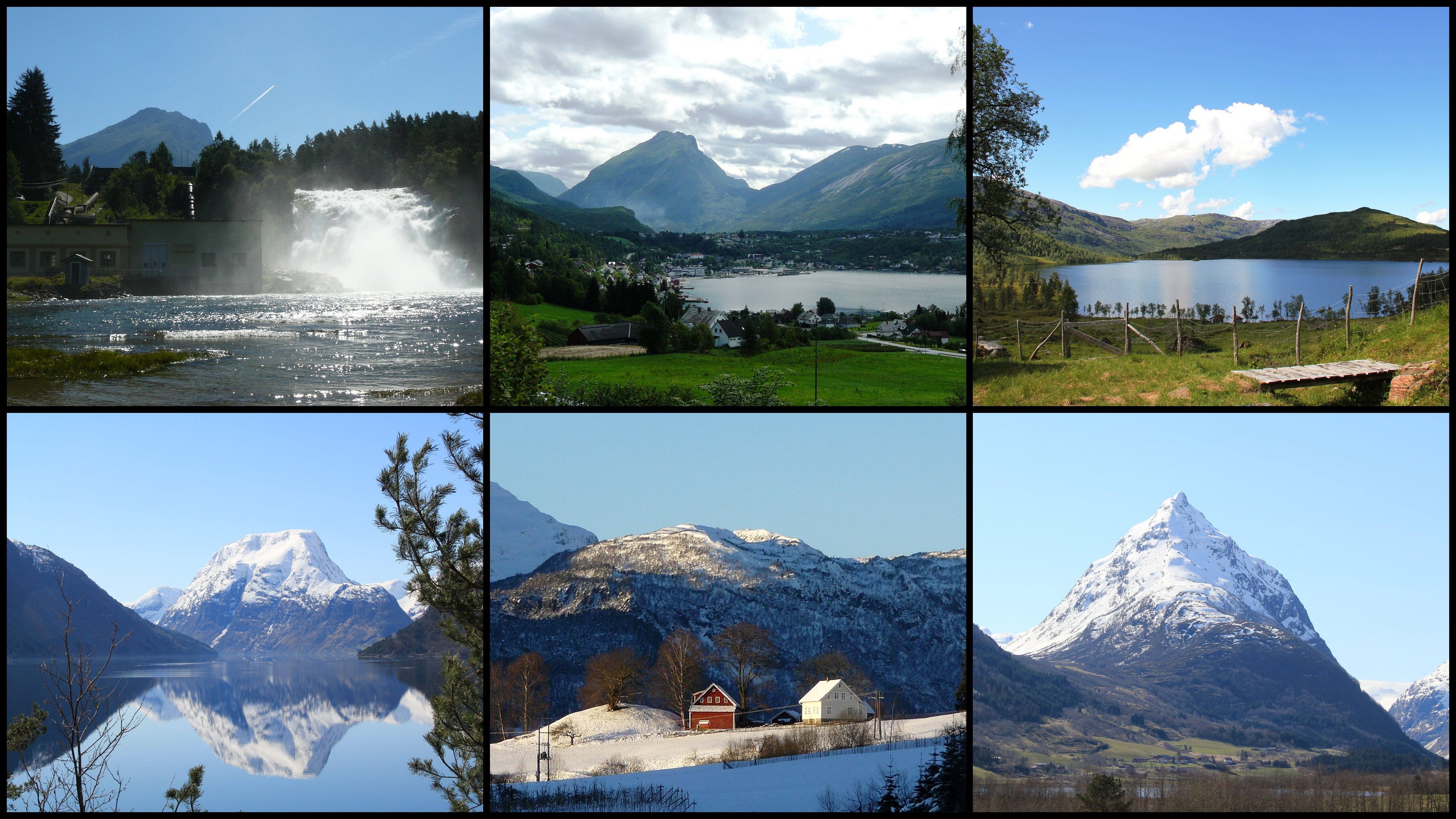 Compilation of six images from Gloppen, Norway